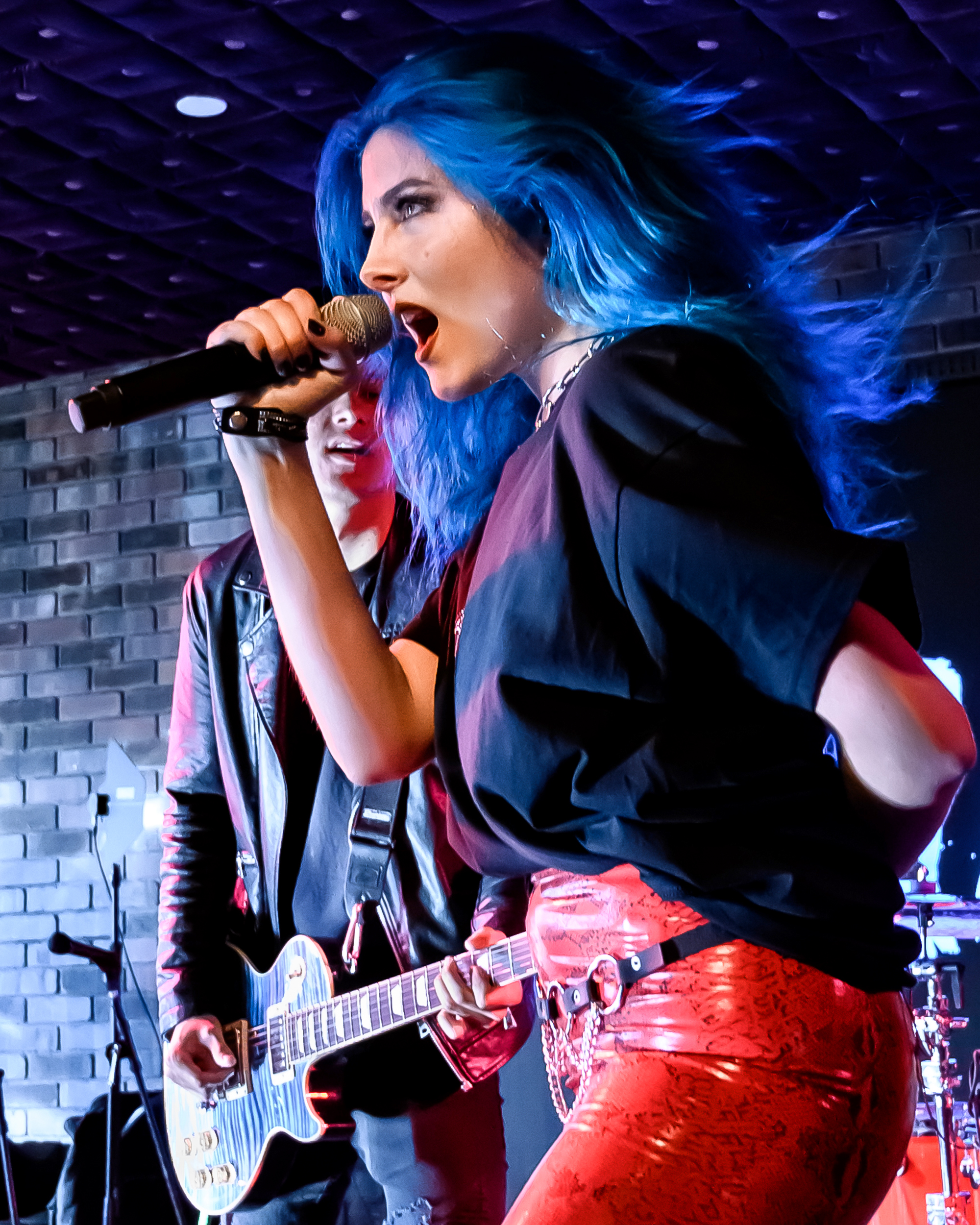 Diamante performing live at Live Nation in Beverly Hills, Los Angeles, California, on Monday, June 10, 2019.